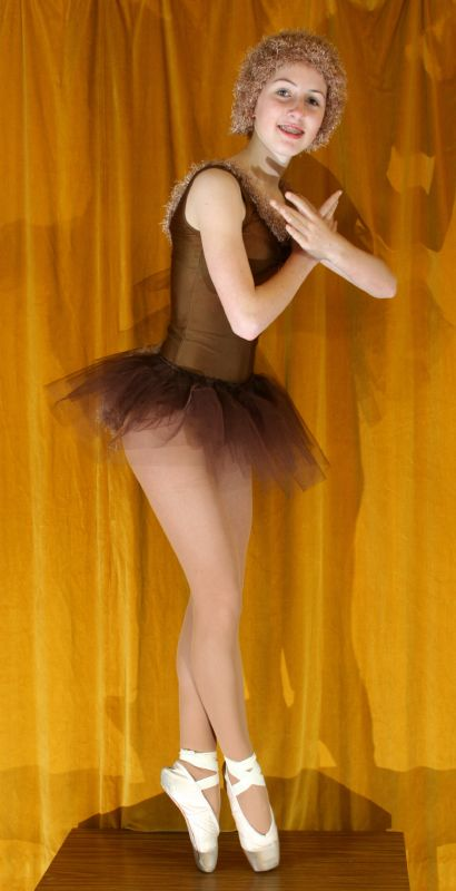 Photo taken as part of the promotional stuff for the forth-coming show.Prima Ballerina